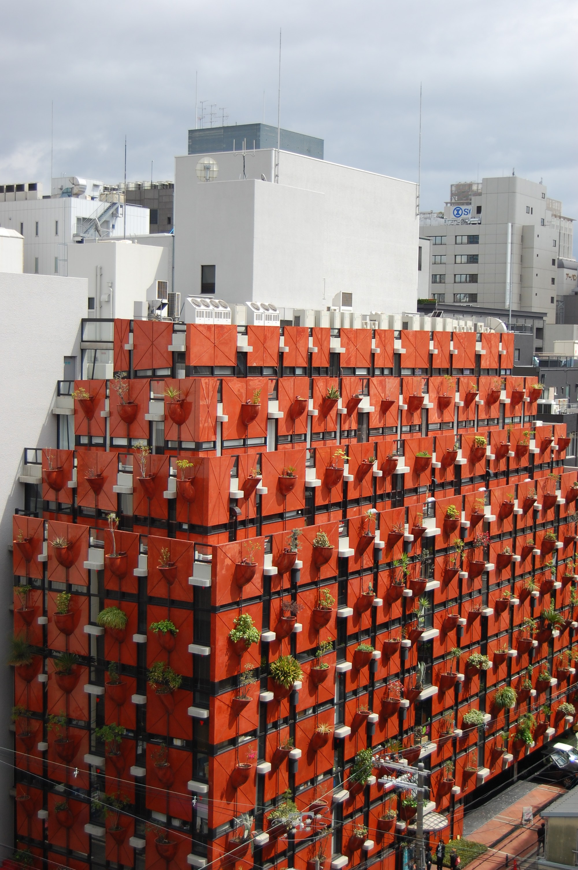 Gaetano Pesce's Organic Building (1993) in Osaka, Japan. The walls of the construction feature extruded pockets with plants, thus creating an impromptu vertical garden.